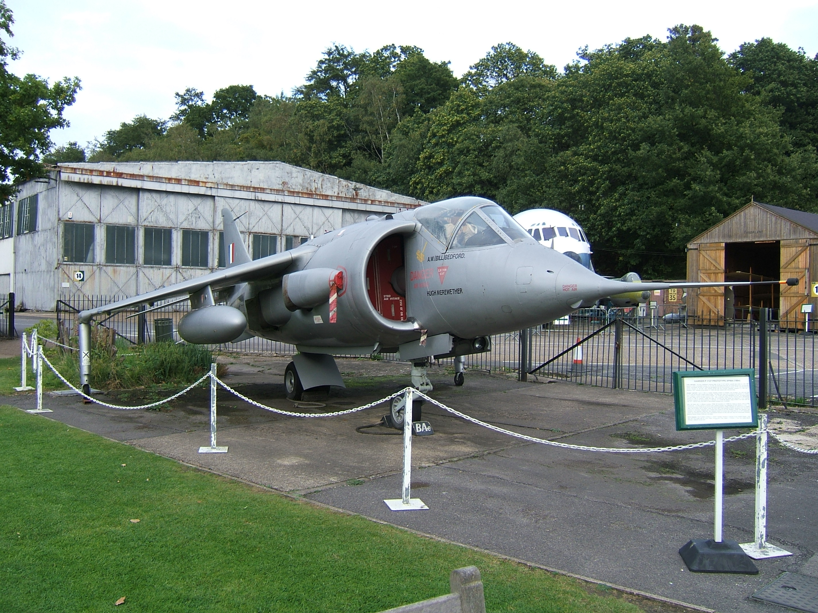 The fist Hawker P.1127 prototype to be fitted with a swept wing (XP984), in the Brooklands Museum at Brooklands motor racing circuit, Surrey, UK.